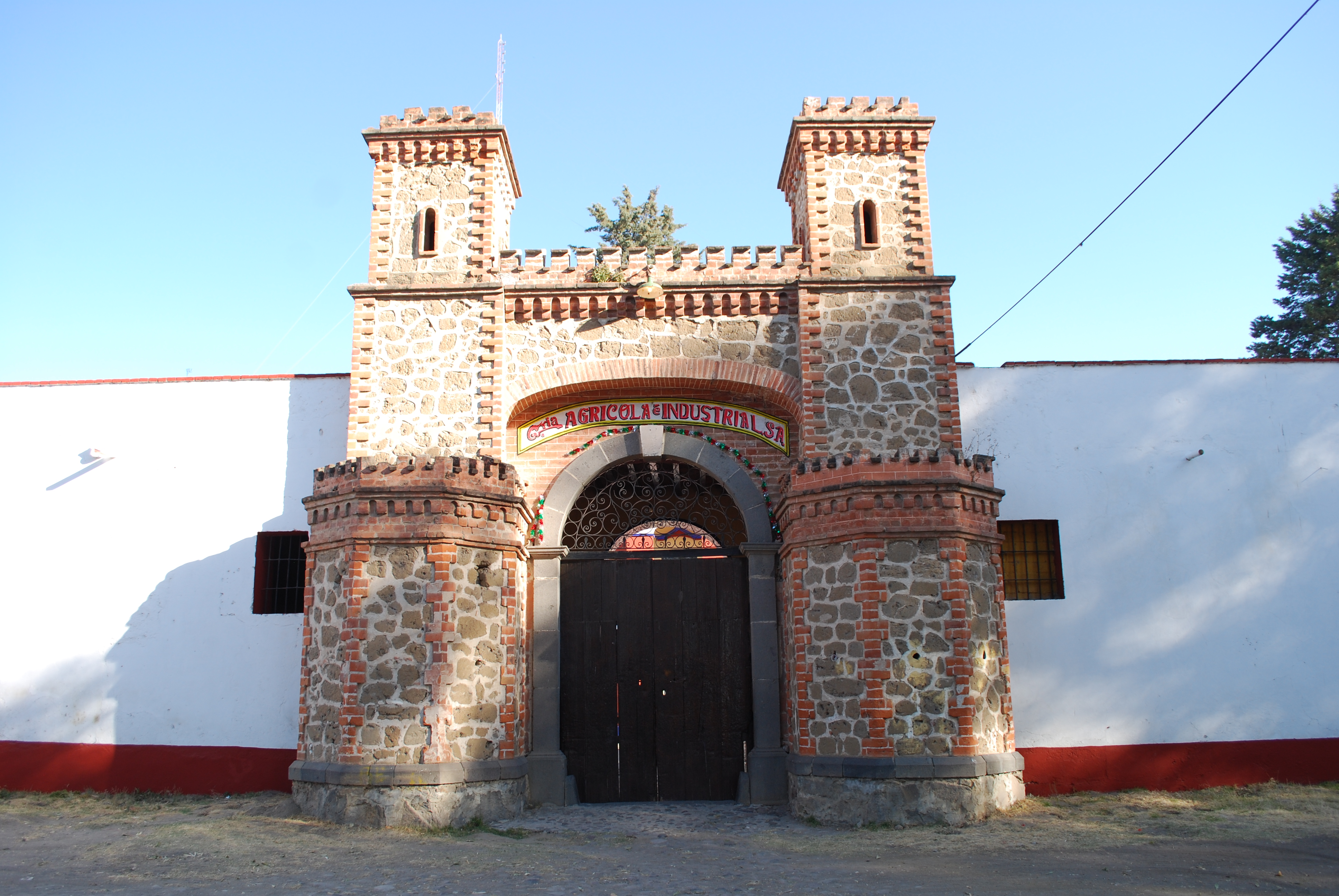 One of the formal entrances into the main house area of the Chautla Hacienda in San Salvador el Verde, Puebla, Mexico